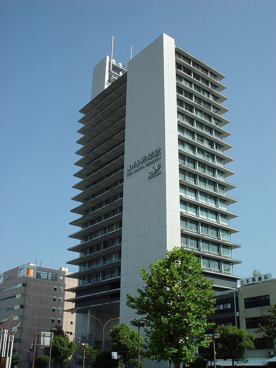 Photograph of The Sanyo Shimbun (local newspaper company) head office in Okayama, Japan.